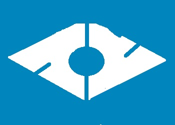 Flag of Kamigori Hyogo